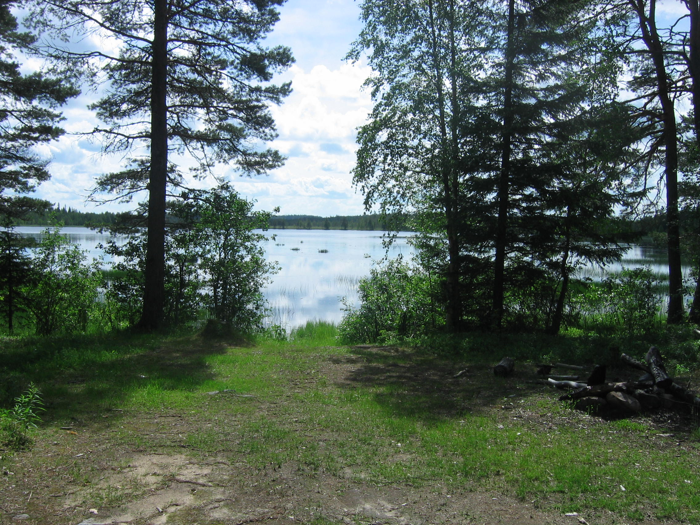 The small lake "Ylilampi" in the Utosjoki river in the North-Eastern part of the municipality of Utajärvi, Finland